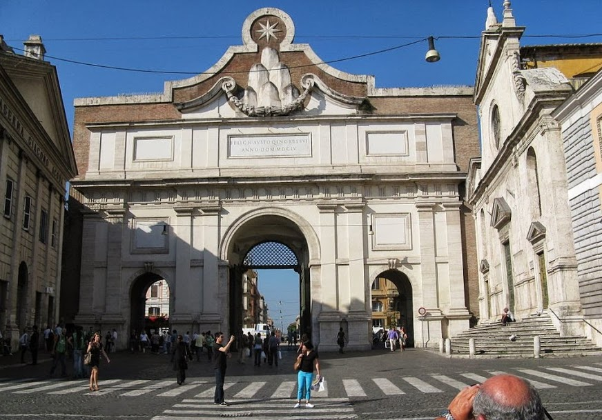 Porta del Popolo (Rome): inner side